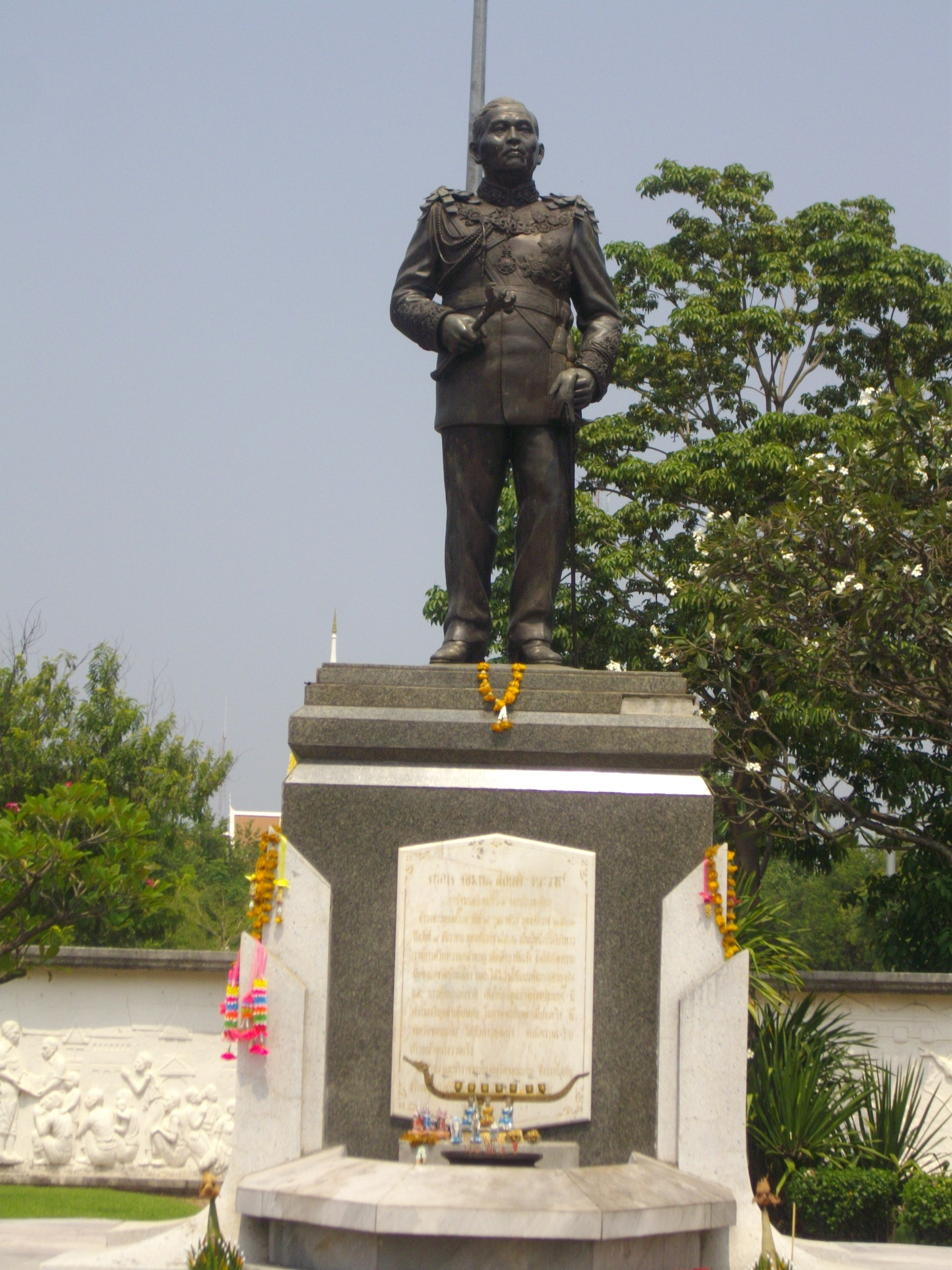 Monument of Field Marshal Sarit Dhanarajata, former Prime Minister of Thailand (1959-1963), in Khon Kaen Province, Thailand.